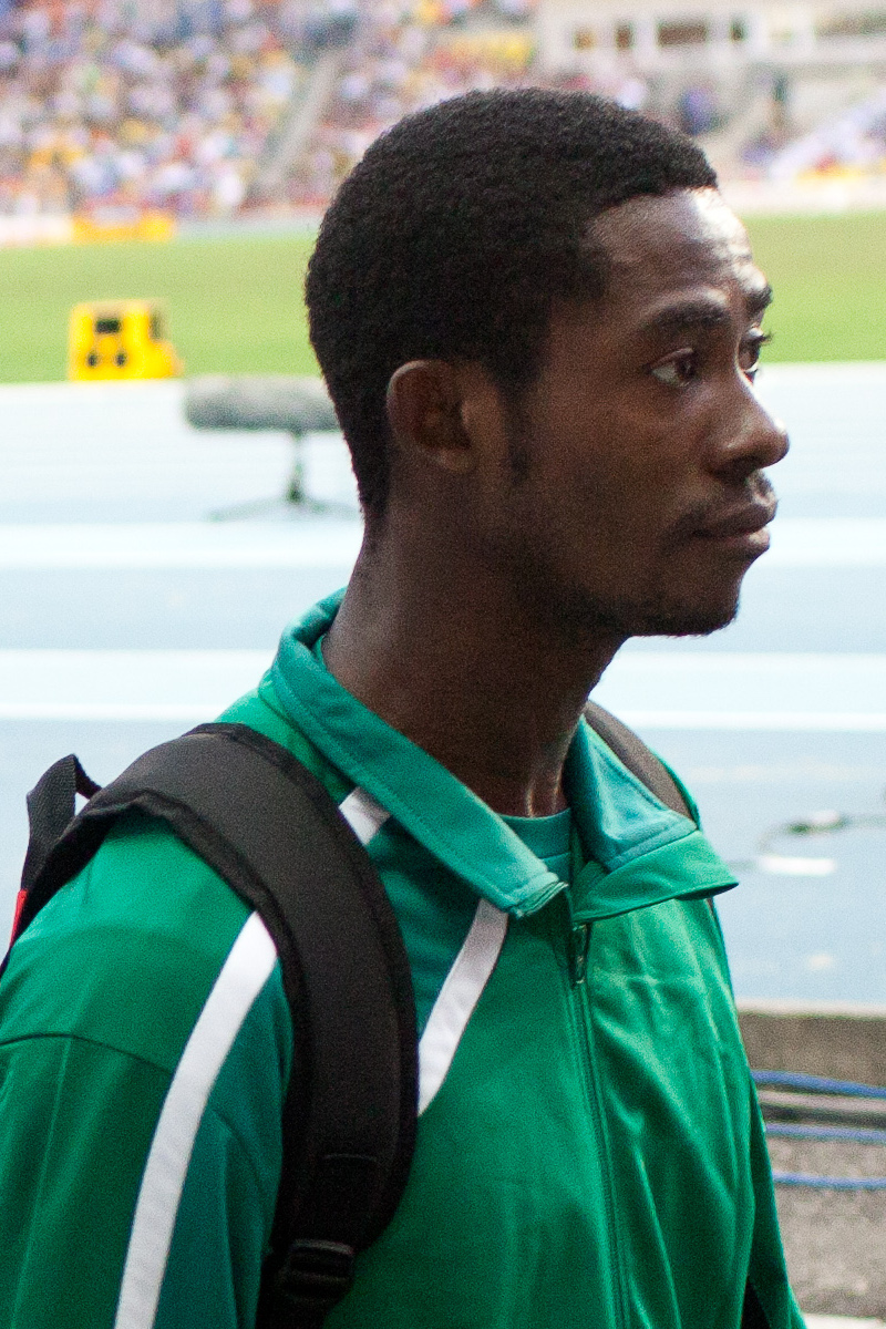 Hua Wilfried Koffi during 2013 World Championships in Athletics in Moscow.